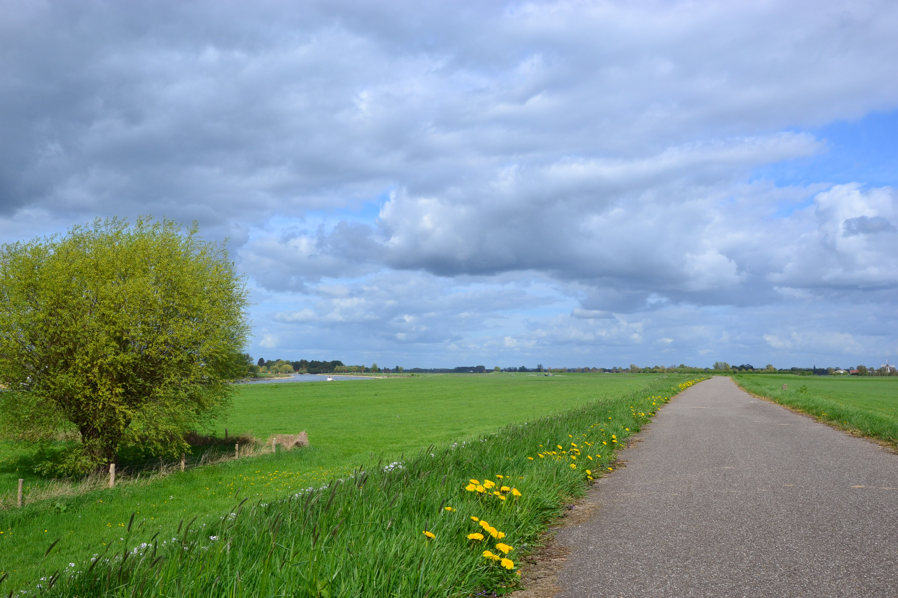 On the Graafschapspad hiking trail near Olburgen, Gelderland, the Netherlands